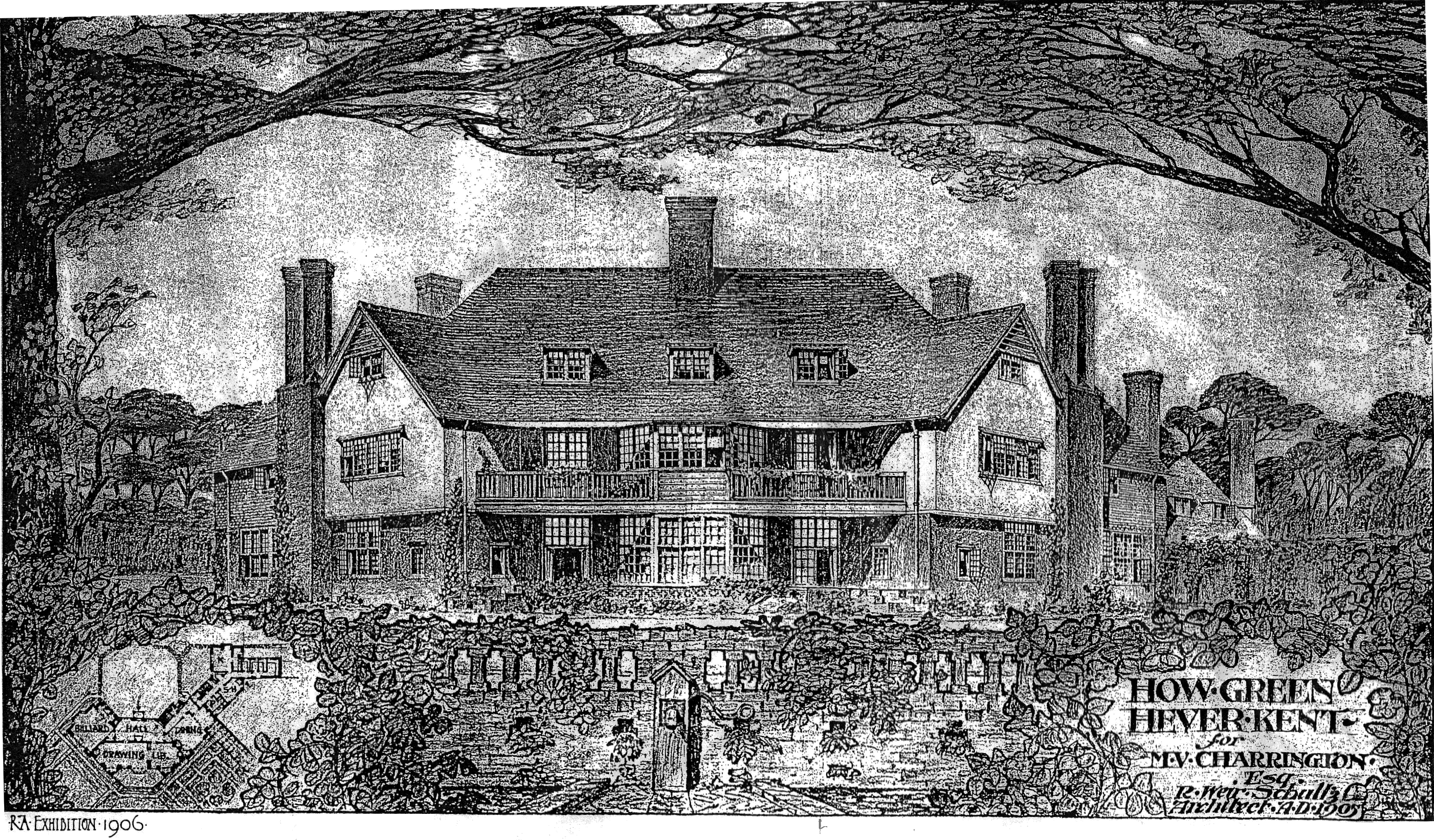 Architect's drawing of How Green House, Hever, Kent